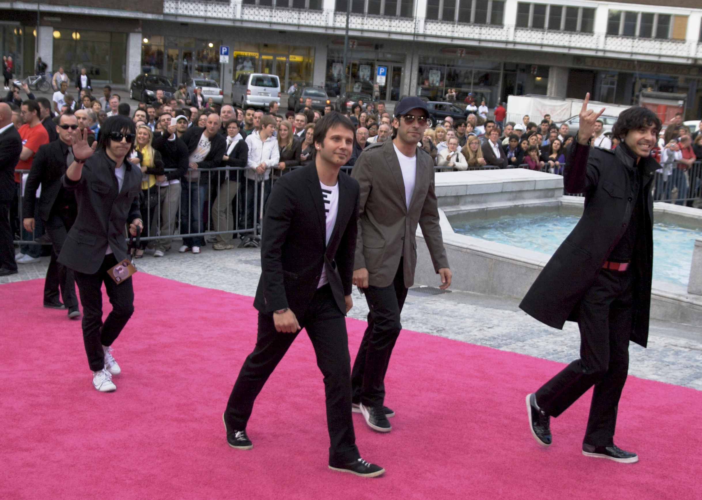 maNga